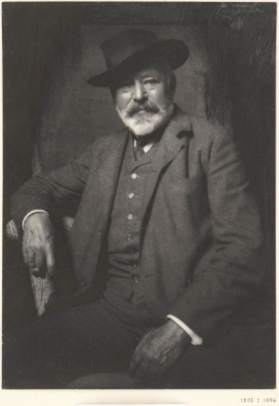 The bavarian sculptor Ferdinand von Miller the younger (1842-1929)